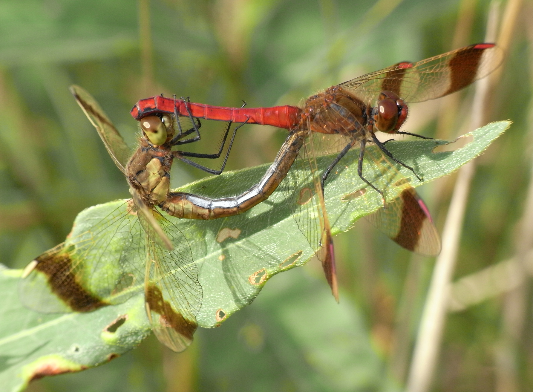 Banded Darters (Sympetrum pedemontanum) mating near Hamburg, Germany.